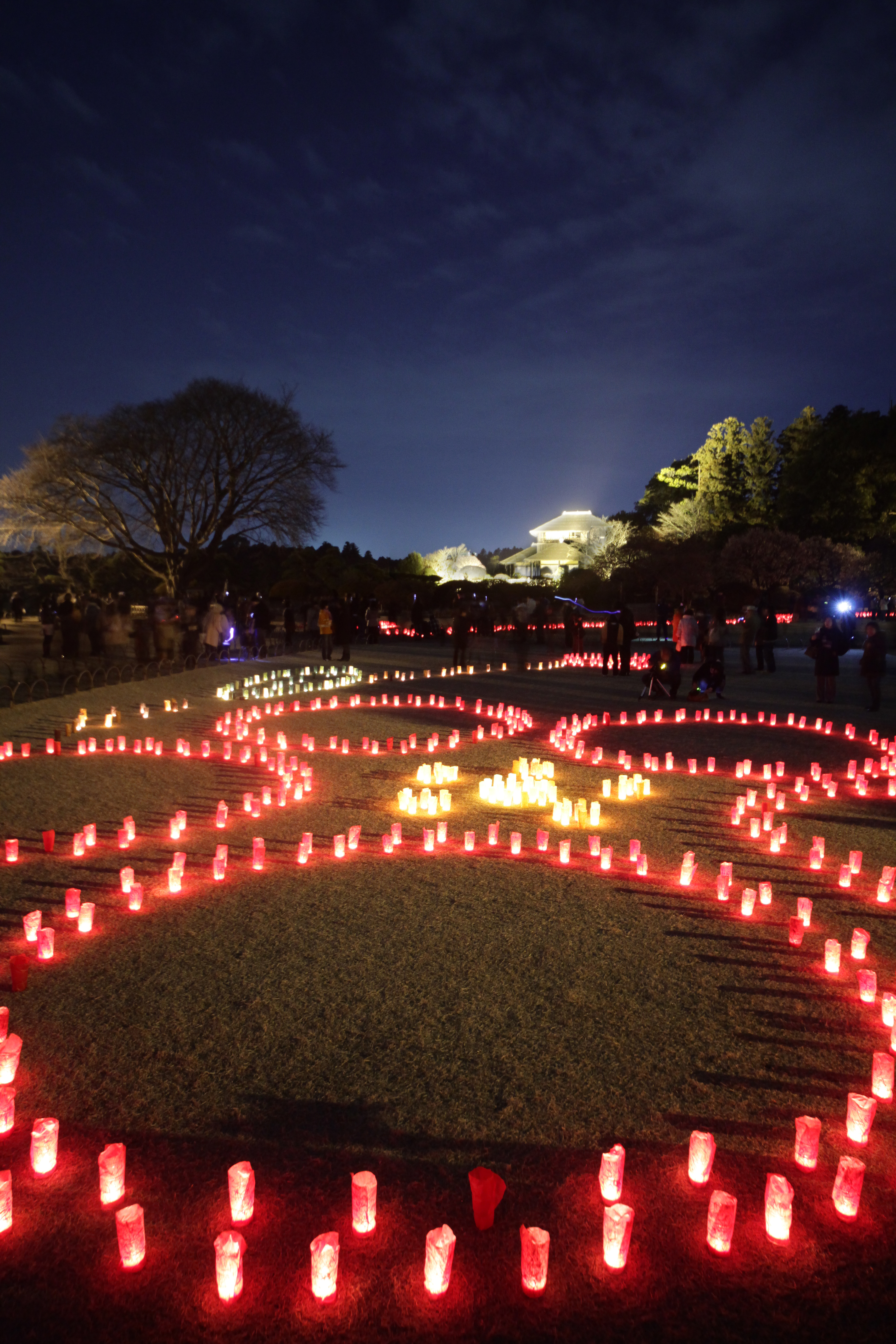 yoruume koubuntei